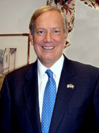 Embassy Helsinki welcomed New York State Governor George Pataki on Monday, Sept. 26. Governor Pataki visited Finland as part of a round-the-world trip including a trade mission to China. He discussed his impressions of the Chinese economy, energy development challenges in America, and crisis management, among other issues, with Finnish business leaders in a lunch at the Embassy. The Governor also met with Embassy staff, toured Helsinki, and met with senior Finnish political figures. He thanked Finnish companies for their business presence in New York City, and praised the image of the Helsinki Accords, saying those accords represent the world commitment to the human rights of each person.